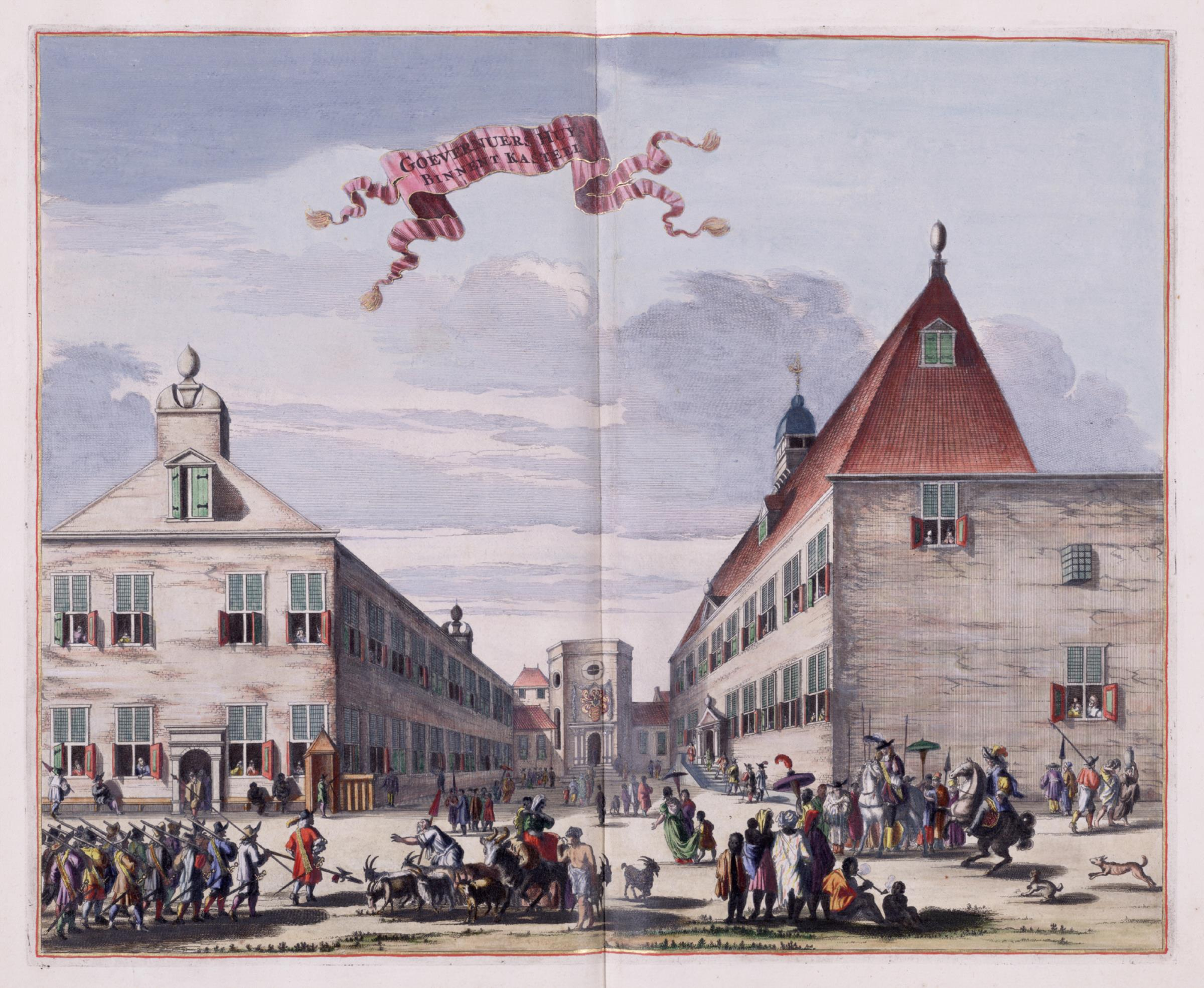 View of the inner courtyard of Batavia Castle, where the VOC buildings were located. To the left the residence of the director general is shown, while the residence of the governor general and company offices the 'gouvernement' are shown right. In the centre to the rear the castle's chapel may be glimpsed with its classical pillars and coat of arms. Cf. Westfries Museum, inv. nr. 15241.05. The print in the Atlas Van Stolk, inv. nr. top1037 and Koninklijke Bibliotheek, inv. nr. 388 A 9 deel II, na p. 208 is in black and white, while the print from the Koninklijke Bibliotheek (Atlas van der Hagen, Koninklijke Bibliotheek, The Hague Part 4, inv. nr. 1049B13_29) has been coloured in.